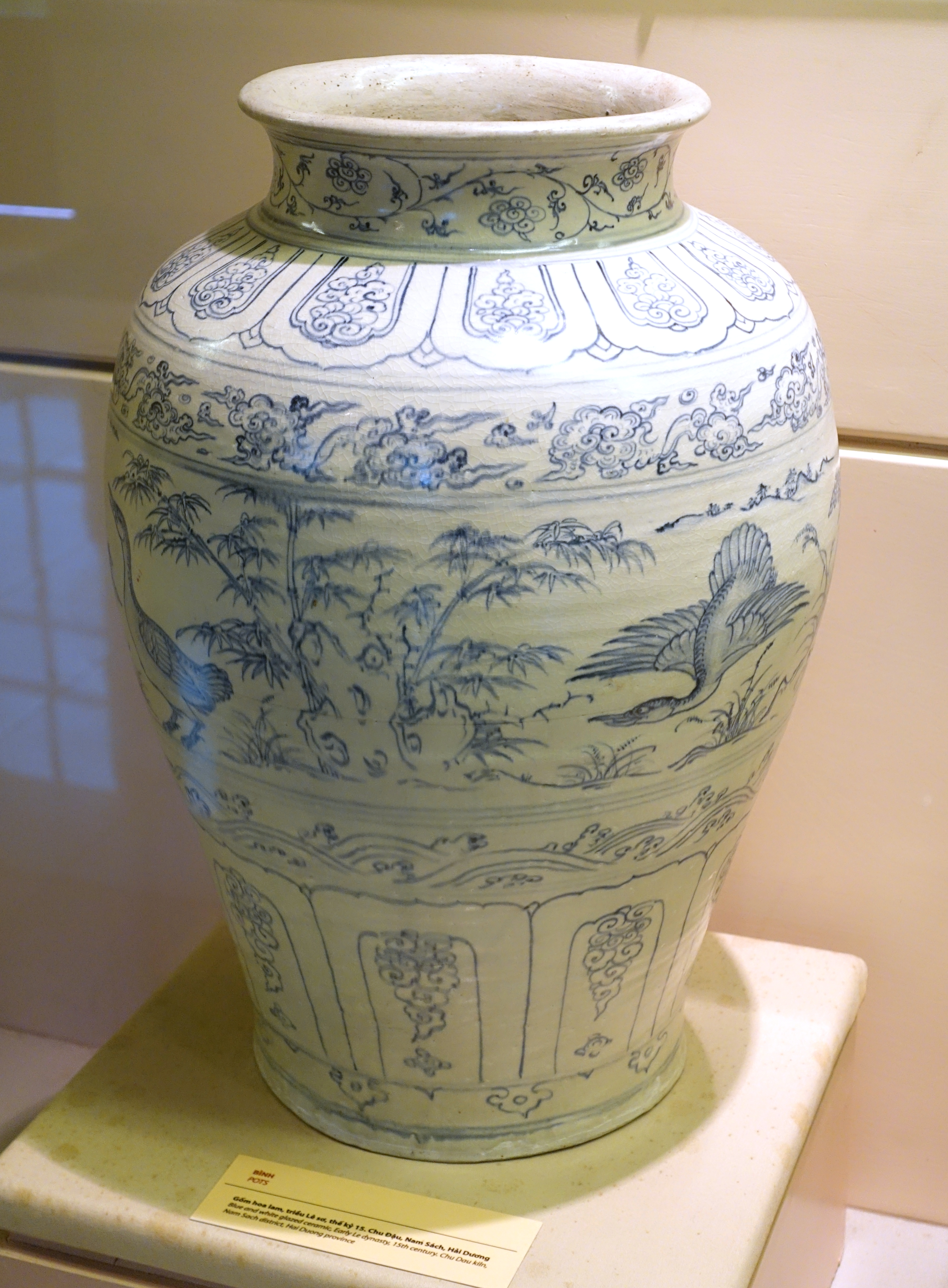 Exhibit in the National Museum of Vietnamese History, Hanoi, Vietnam. This artwork is old enough so that it is in the public domain.